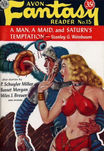 Cover of the fantasy fiction magazine Avon Fantasy Reader no. 15 (1951) featuring "A Man, A Maid, and Saturn's Temptation" by Stanley G. Weinbaum.